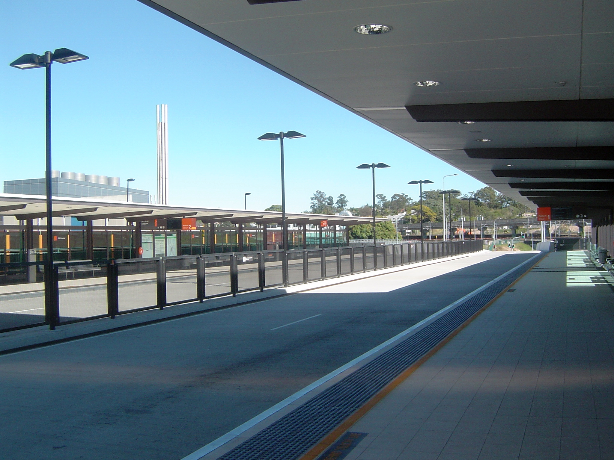 Princess Alexandra Hospital busway station. View shows easterly heading side, looking west.